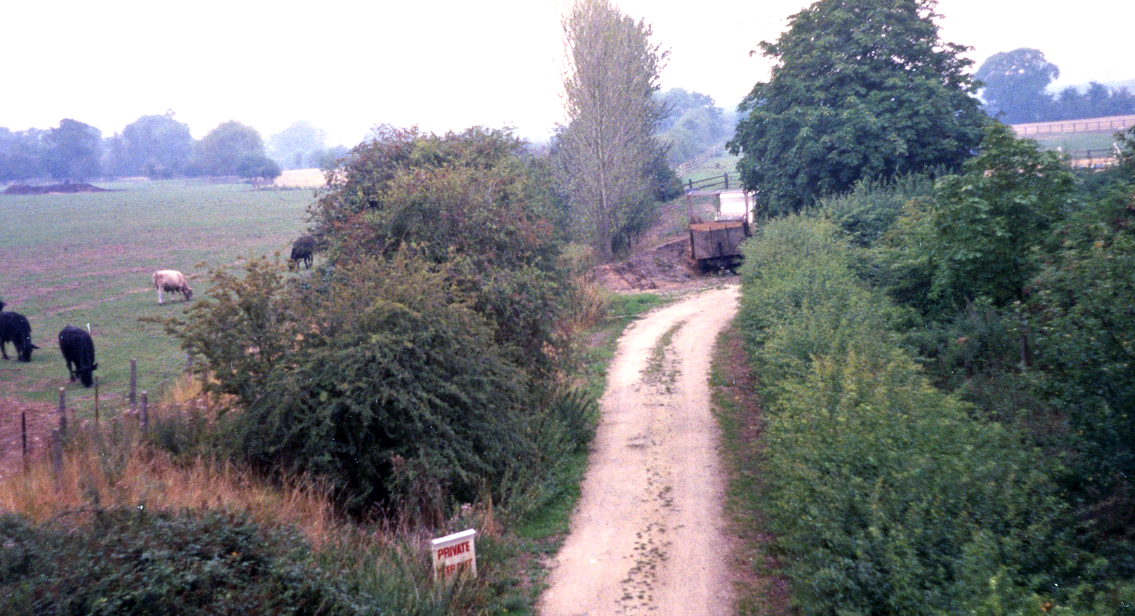 Site of former Carterton station/halt. View westward, towards Fairford: ex-GWR Oxford - Witney - Fairford line, closed 18/6/62. The 'station' had only been opened 2/10/44, mainly to serve RAF Brize Norton, the original Brize Norton station being on the wrong side of the large RAF Base, which became a USAF Base 1951-65.